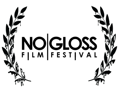 No Gloss Film Festival Official Logo